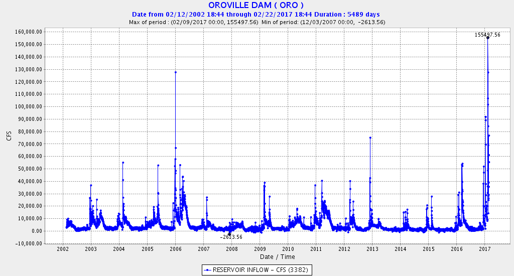 Plot showing Oroville Lake Inflow 2017 - 15 Years